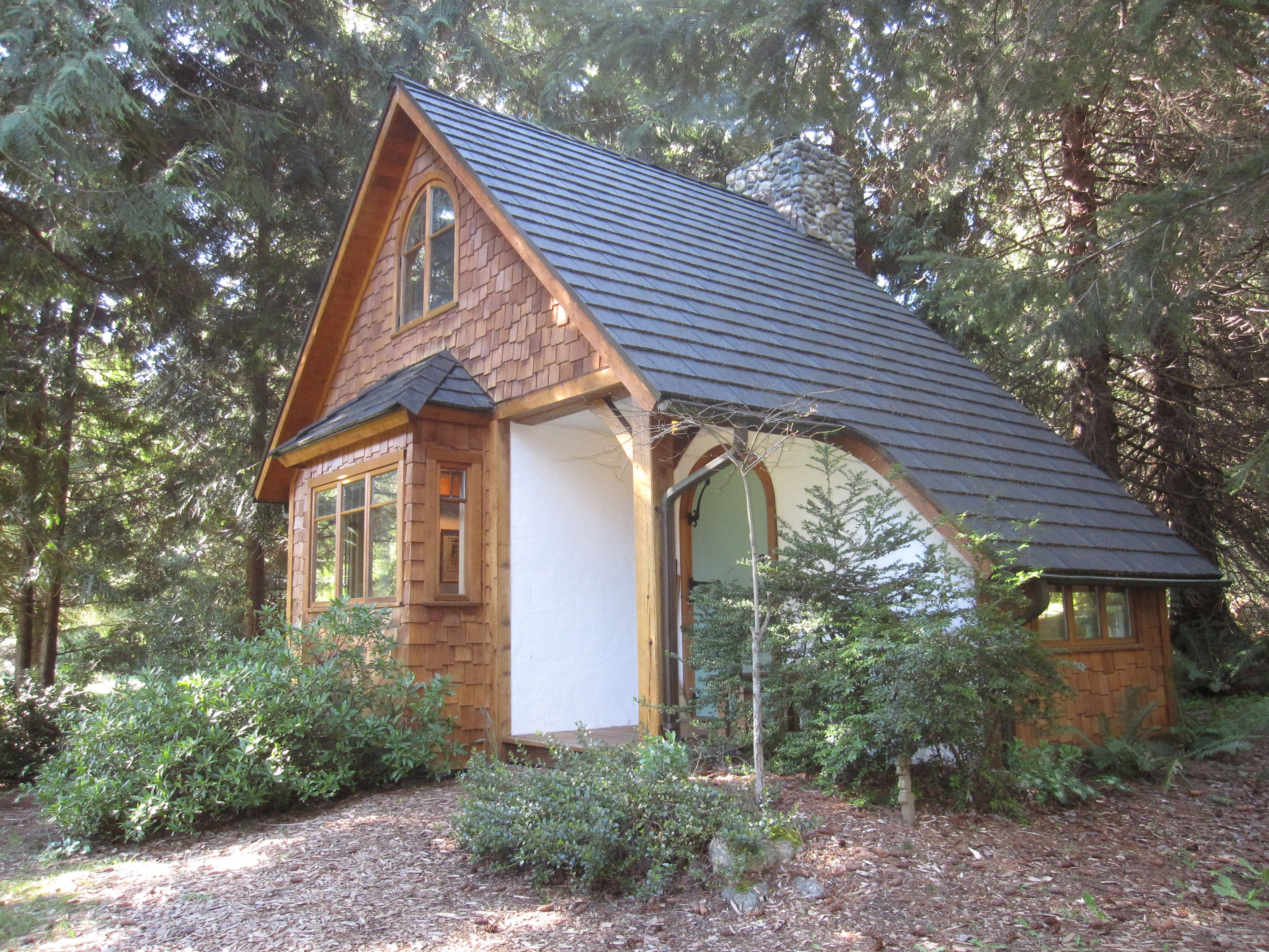 Artist's individual cottage at the Hedgebrook Artist Colony on Whidbey Island, Washington.